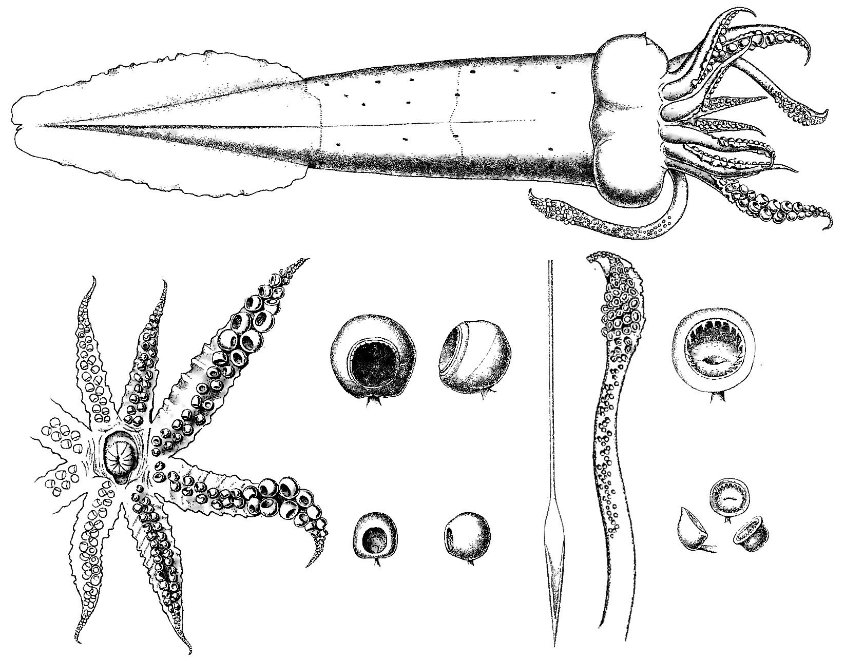 Teuthowenia megalops anatomy: Counterclockwise from top: Dorsal aspect Arms and buccal cavity. (note greatly enlarged suckers on the midportion of the third and second pair of arms) Closeup examples of arm suckers (note teeth either absent or present on distal/lateral part of margin; rounded to triangular) Gladius Tentacle (not zigzag pattern of carpal suckers) Closeup of examples of tentacular suckers (note teeth present on entire margin; sharply pointed)